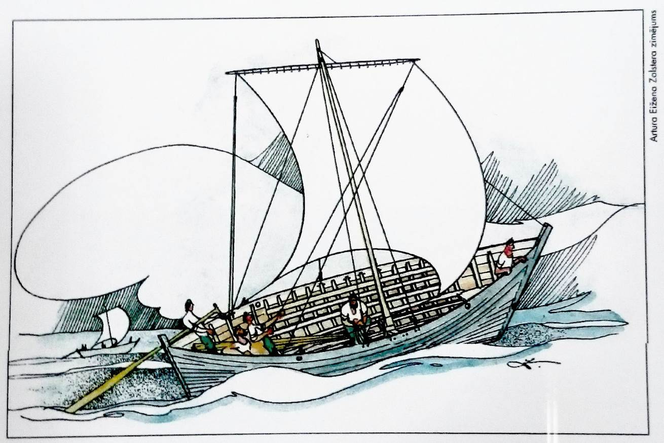 Arturs Eižens Zalsters. Rīgas kuģa zīmējums